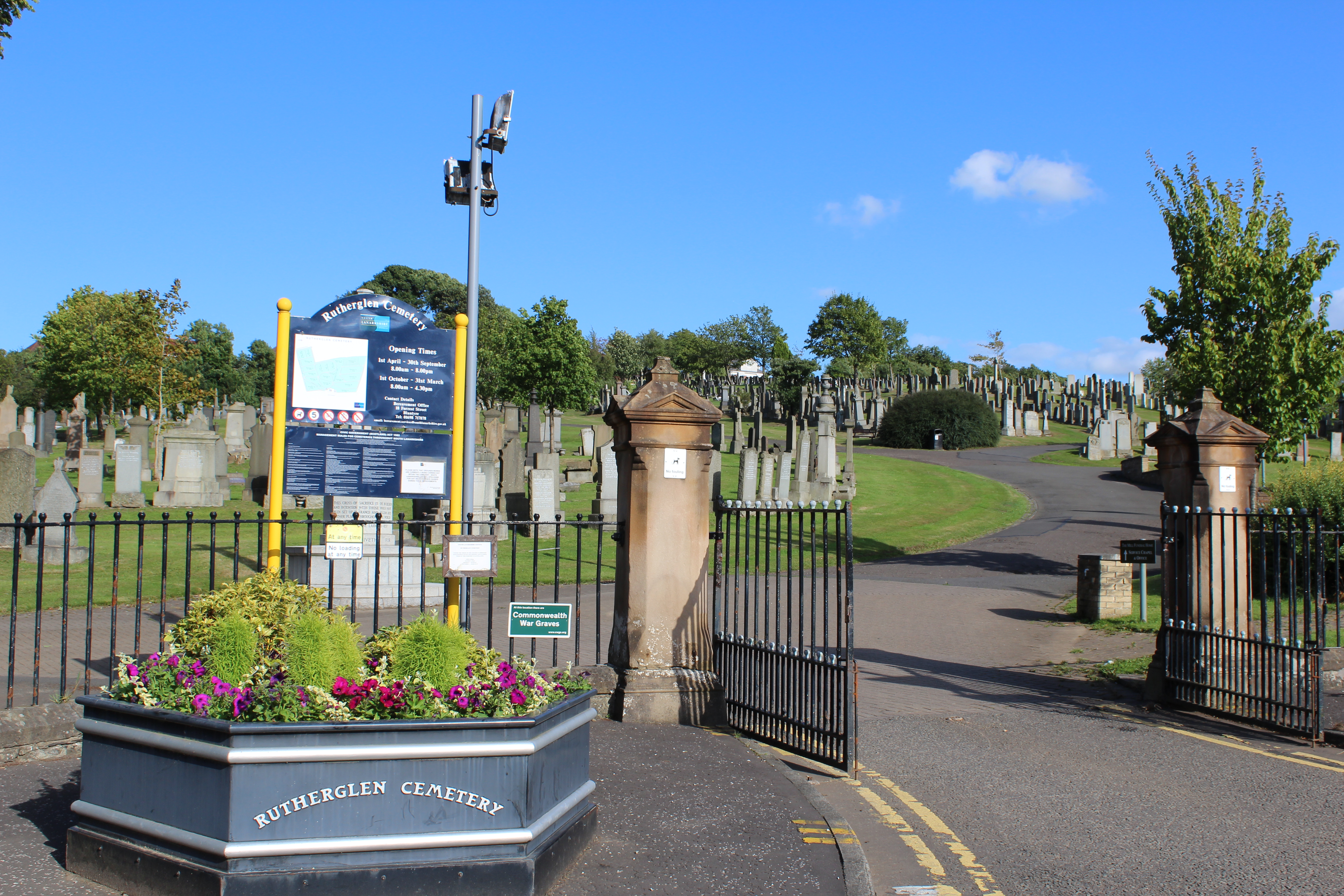 Rutherglen Cemetery